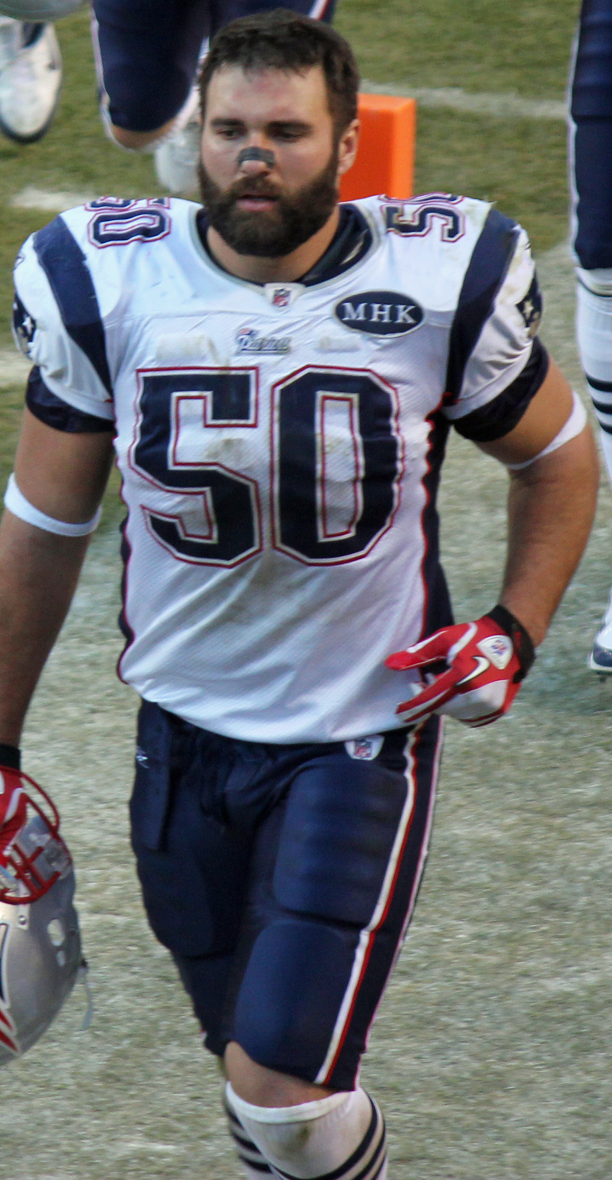 Rob Ninkovich, a player on the National Football League.